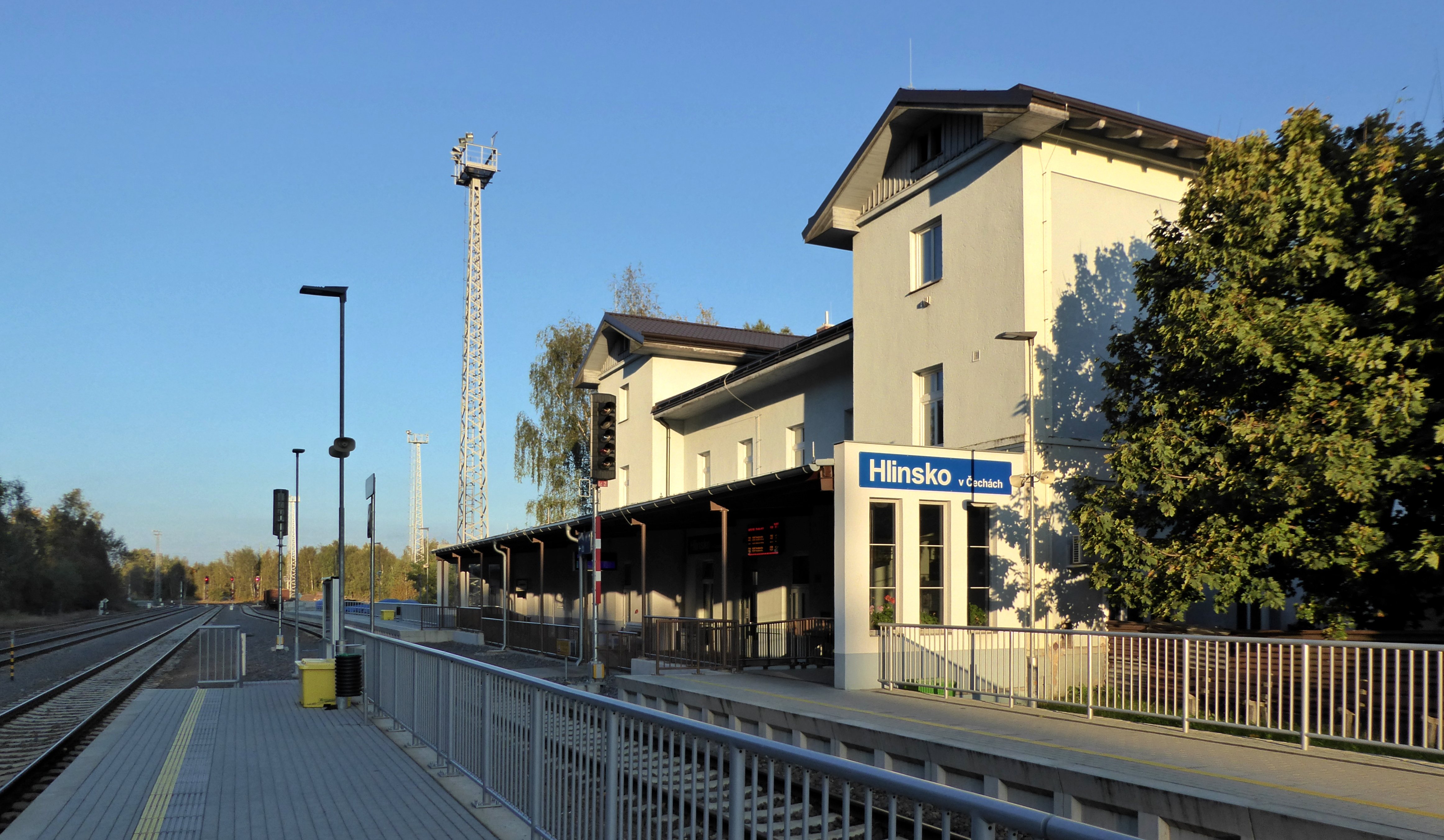 Hlinsko in Bohemia is the name of the railway station on line 238 Pardubice – Havlíčkův Brod in the Czech Republic. The railway station is located in the cadastral area of Hlinsko in the Chrudim district belonging to the Pardubice Region. The railway line was built in 1871 when the Czech lands were part of Austria-Hungary. In 2015, the railway line and railway station was upgraded, equipped with new security equipment, information technology, and new passenger platforms. Personal transport is provided by national rail company the Czech Railways. Photo-location: Czechia, Pardubice Region, town Hlinsko, railway station, 582 m above sea level (65°), "Kameničská" Highlands".